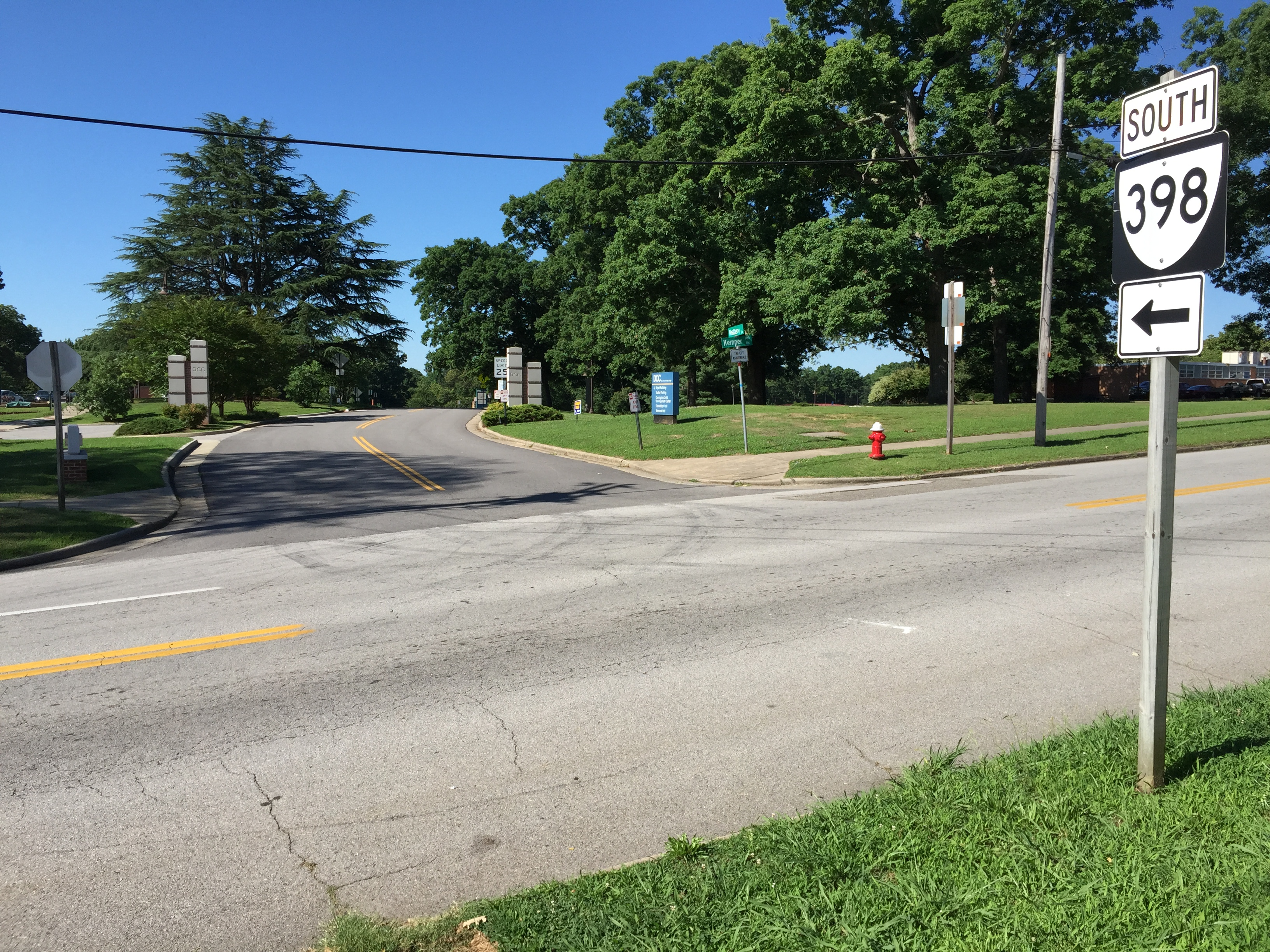 View south along Virginia State Route 398 (Neathery Lane) at Kemper Road at the Danville Community College in Danville, Virginia